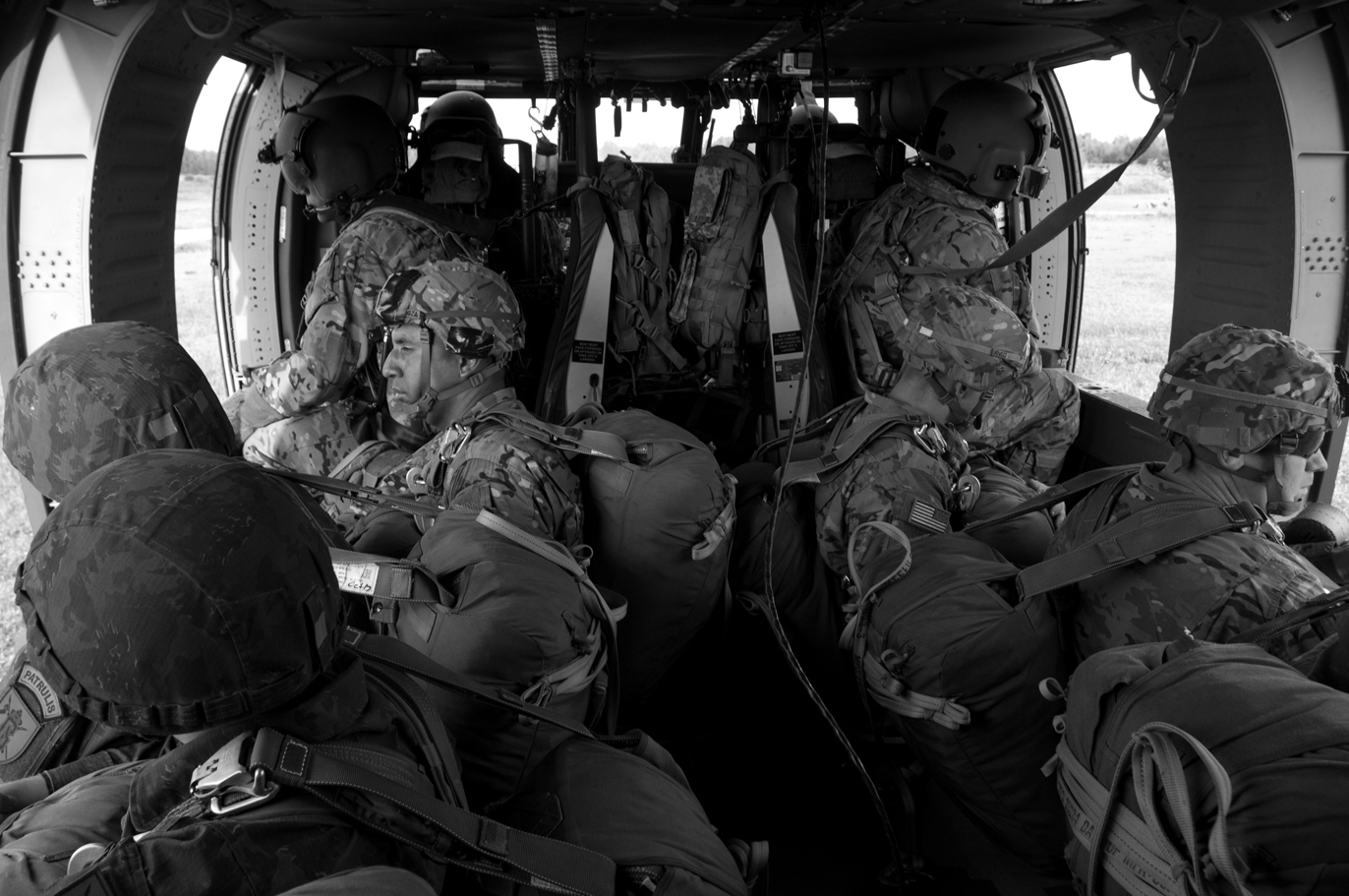 Paratroopers from Algirdo Battalion, Lithuanian Land Forces and Dog Company, 1st Battalion (Airborne), 503rd Infantry Regiment, 173rd Infantry Brigade Combat Team (Airborne) U.S. Army prepare for a parachute jump from a UH60M Black Hawk helicopter near Rukla, Lithuania, July 7, 2015. The 173rd currently falls under the 4th Infantry Division’s Mission Command Element. The 4th ID’s MCE recently mobilized to Lithuania to showcase operational capability and to demonstrate the U.S. unwavering commitment to its Allies. (U.S. Army photo by Sgt. Jarred Woods, 16th Mobile Public Affairs Detachment)